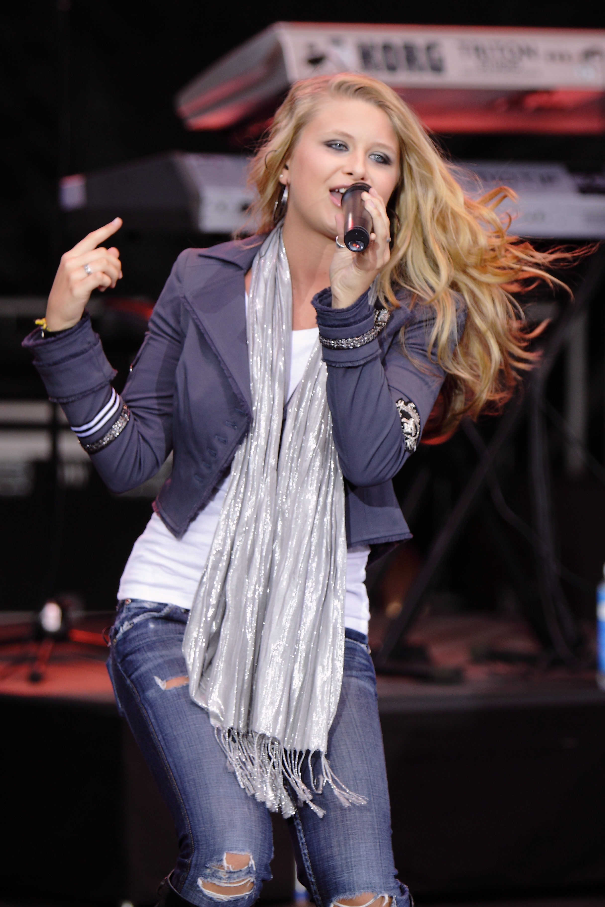 Concert photos from this female singer made famous through Youtube as taken at her performance as part of the "Disney Under the Stars" concert at the Evergreen State Fair in Monroe, WA.